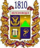 Zheleznovodsk (Stavropol kray), coat of arms